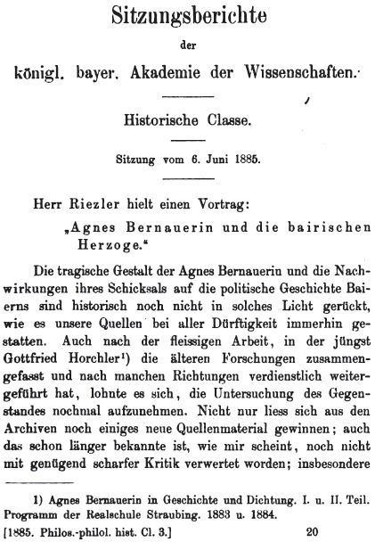 Academy lecture Agnes Bernauerin und die bairischen Herzoge, first page